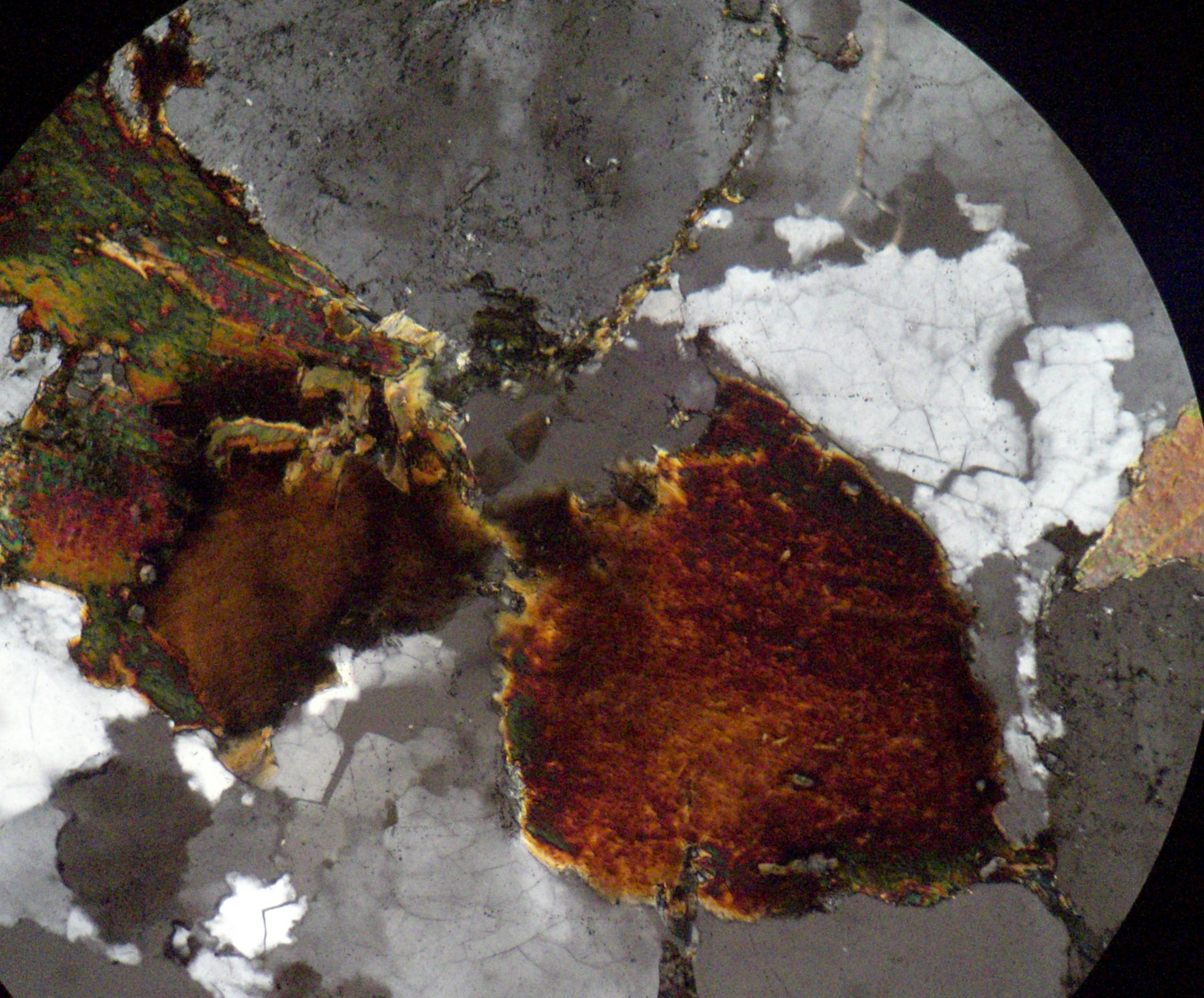 Granodiorie under microscope with 2 nikol. (It is possible see granules of biotite and K-feldspar.)